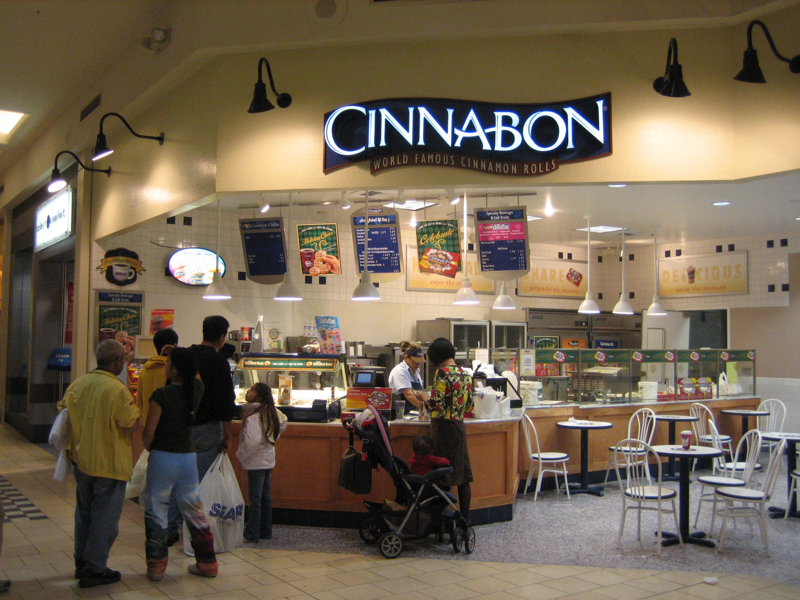 Cinnabon